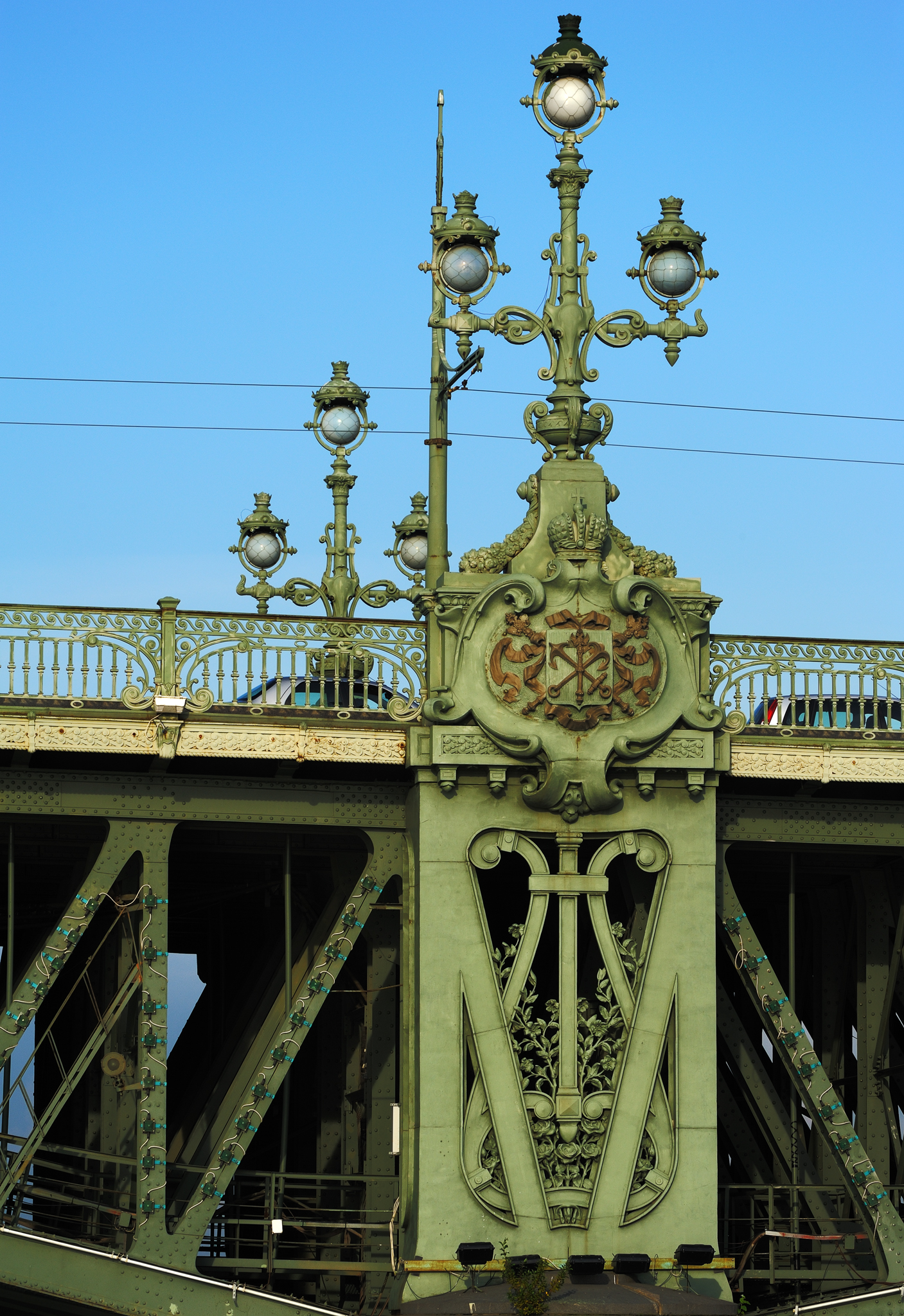 Bearing of Trinity Bridge in Saint Petersburg, Russia